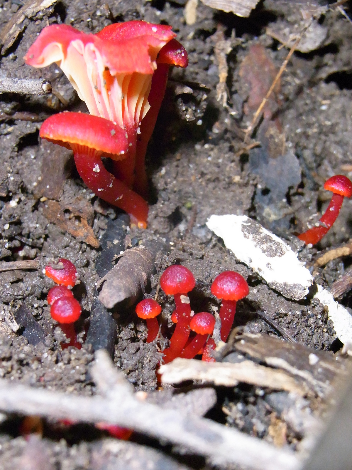 Red Fungi & juveniles Lane Cove Bushland Park, keys out as Hygrocybe lanecovensis